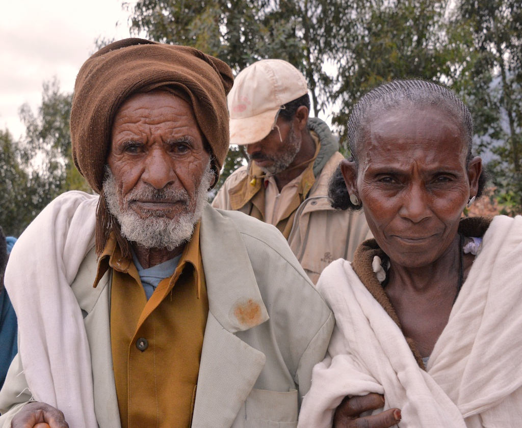 Tigray, Ethiopia